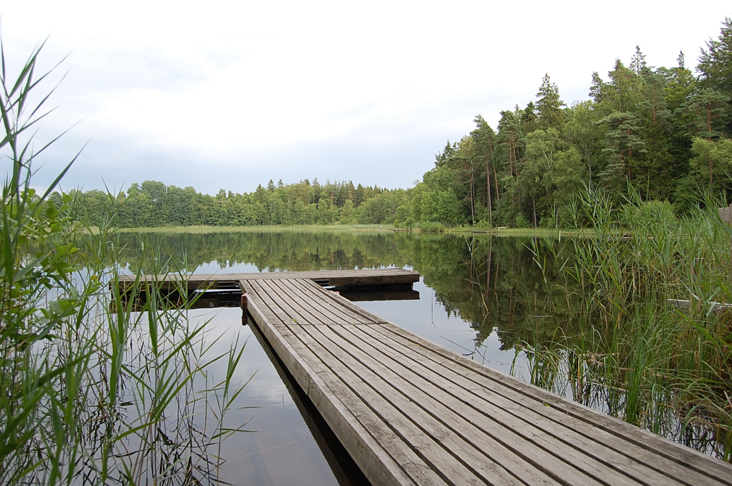 View over a lake in the county of Sölvesborg in Sweden